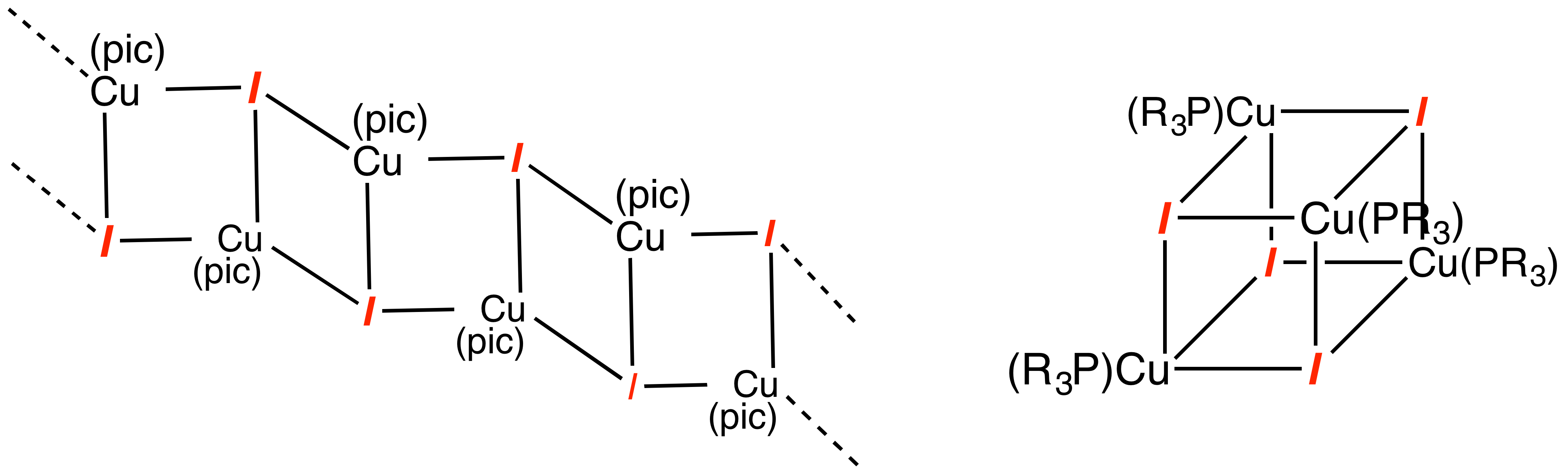 Examples of ladder vs cubane motifs for [CuLX]n.